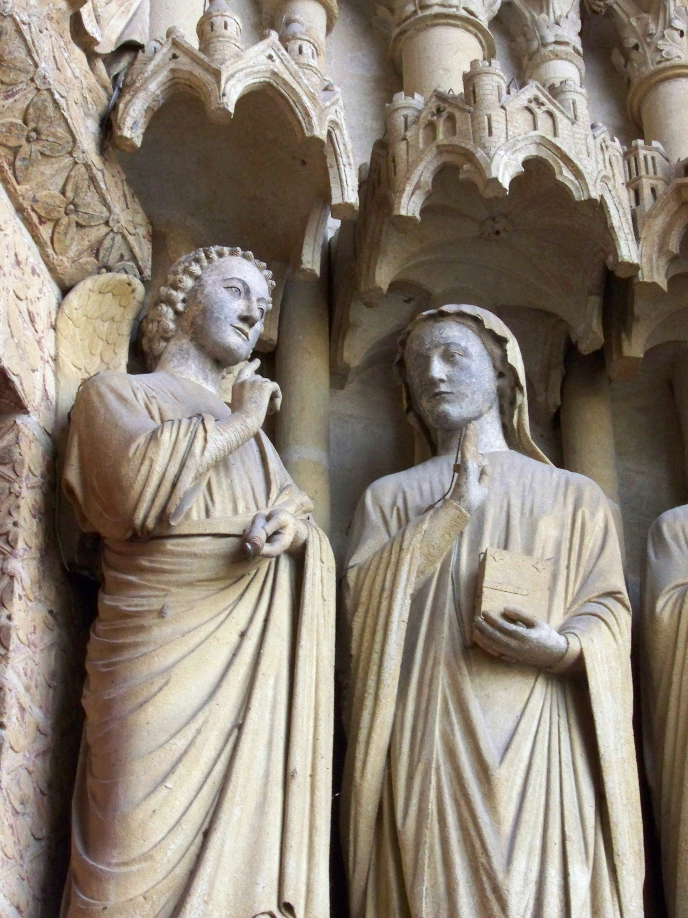 Annunciation, southern portal of the facade of the cathedral Notre-Dame in Amiens, France (remainings of polychrome paintings)